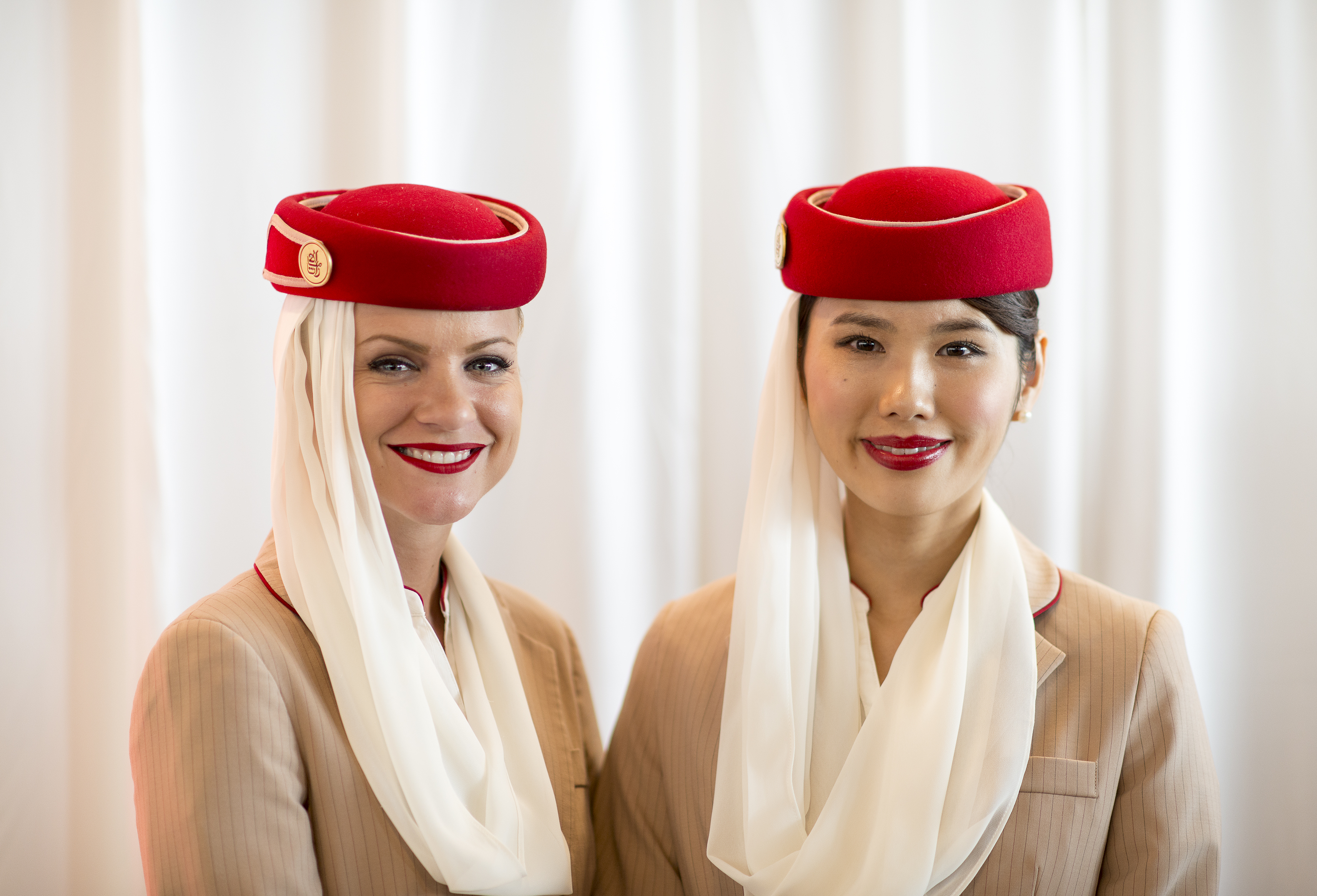 Emirates employees at the inaugural flight to Brussels